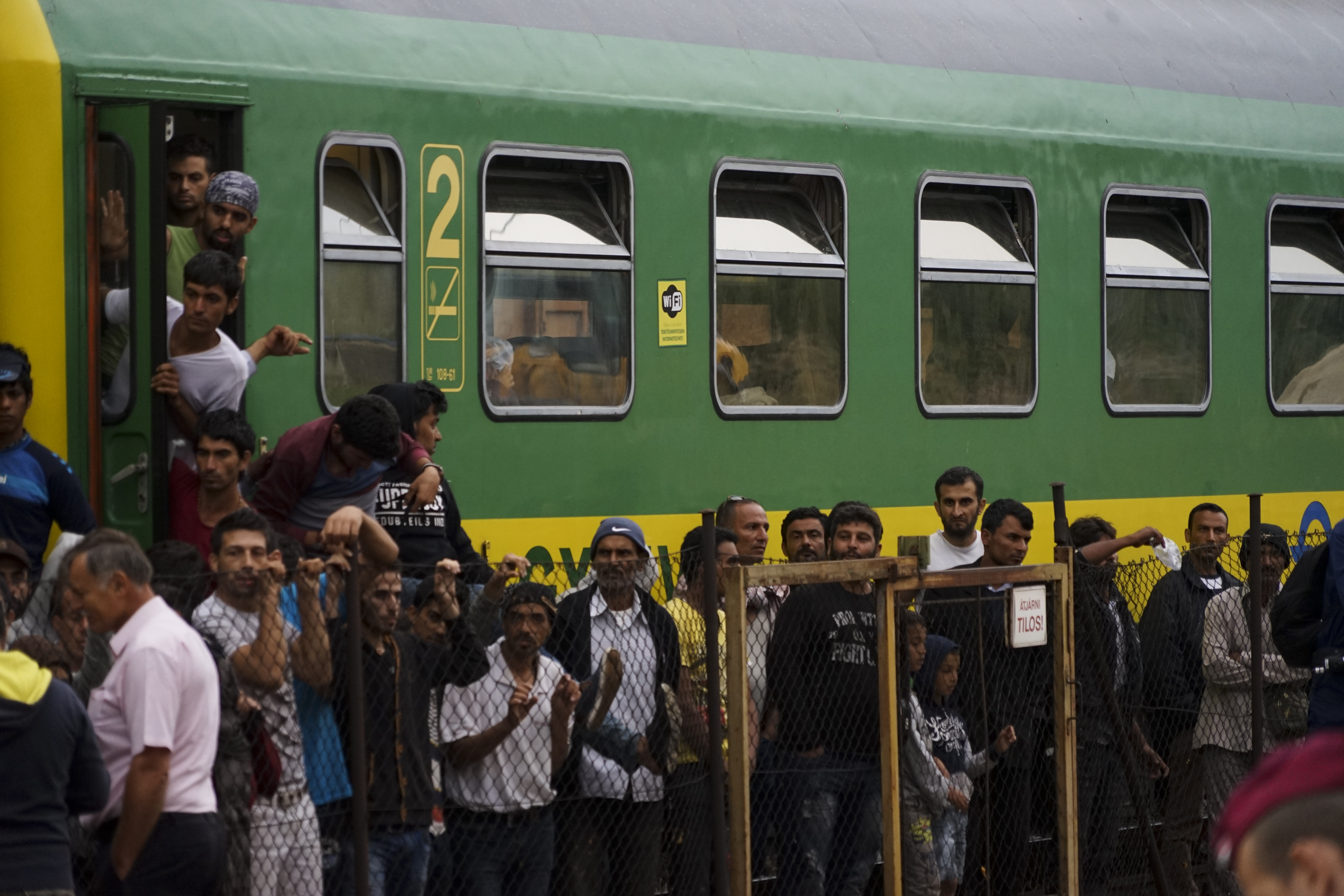 Syrian refugees strike in front of Budapest Keleti railway station. Refugee crisis. Budapest, Hungary, Central Europe, 4 September 2015.